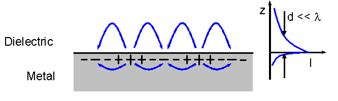 Schematic representation of an electron density wave propagating along a metal/dielectric interface. The charge density oscillations and associated electromagnetic fields are called surface plasmon-polariton waves. The exponential dependence of the electromagnetic field intensity on the distance away from the interface is shown on the right. These waves can be excited very efficiently with light in the visible range of the electromagnetic spectrum. Presently, metallic nanostructures are used to fabricate/analyze: Sub-diffraction limit optical waveguides based on metallic nanoparticle arrays and nanowires. Plasmon excitations on thin films with ordered arrays of holes. Ultra-sensitive optical sensors for biological applications. Electronic interconnects.